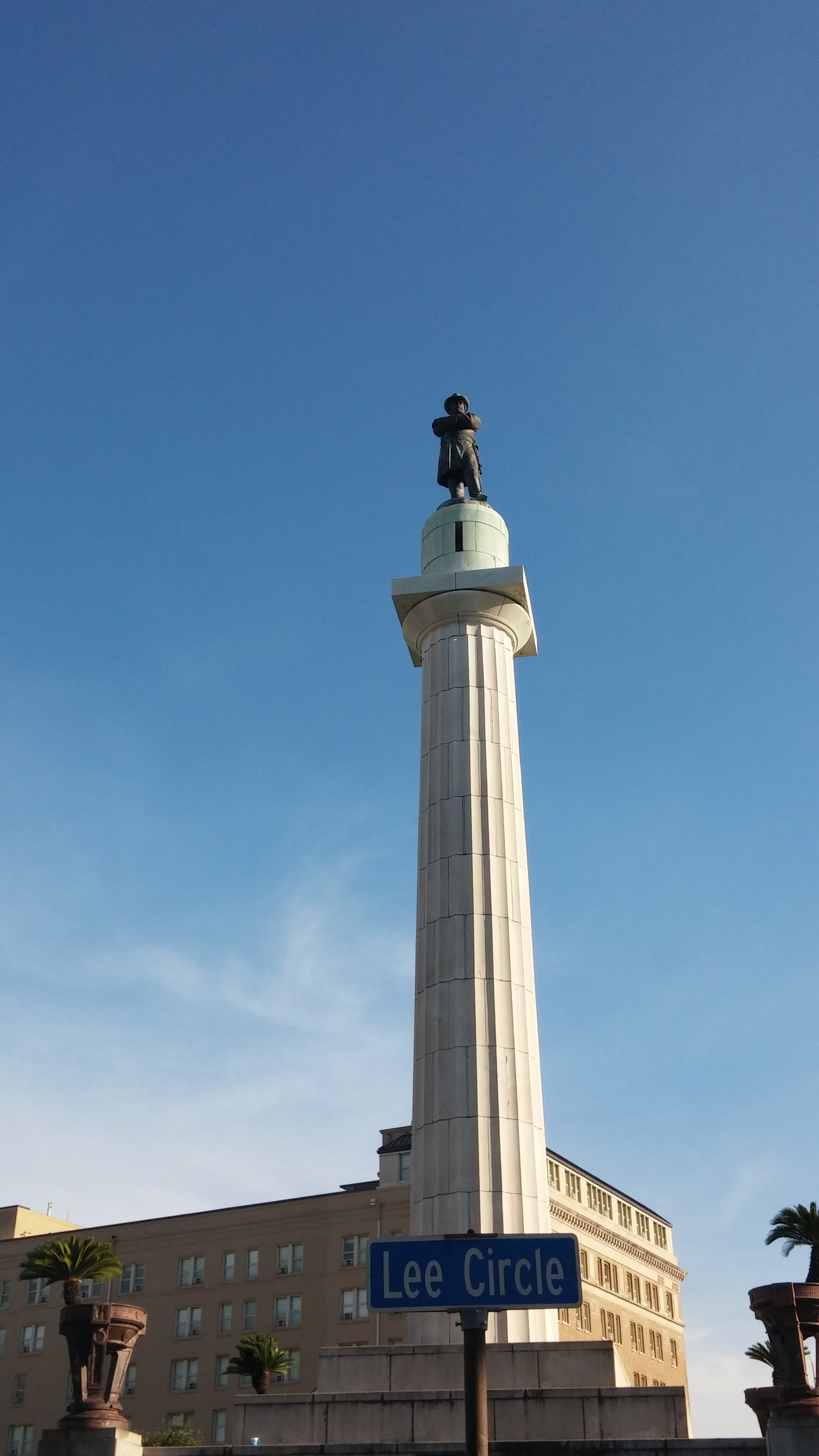 Robert E. Lee Monument, Lee Circle, New Orleans, Louisiana